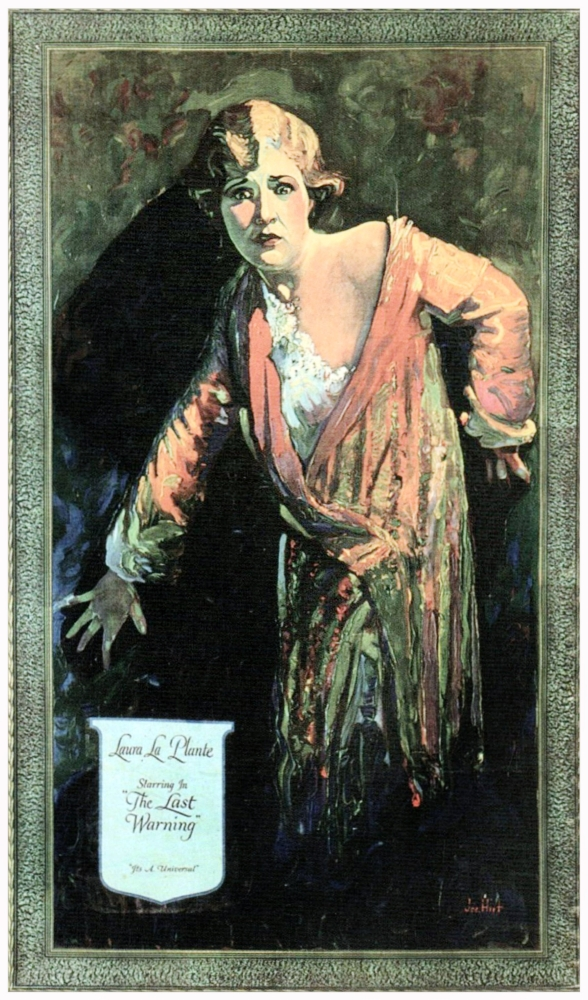 Laura La Plante featured on poster for The Last Warning (1929)